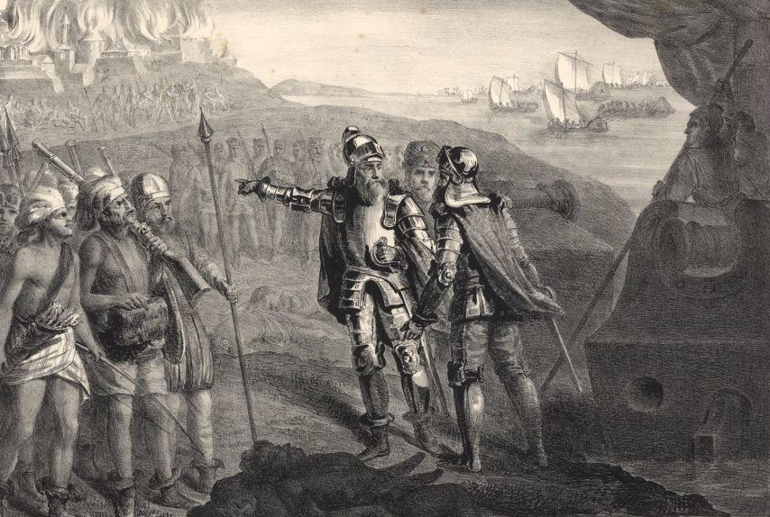 'Setima e deciziva victoria de Pacheco, no passo de Cambalão, contra todo o poder do Camorim' (trans: "The Seventh and Decisive victory of Pacheco at the Pass of Kumbalam, against all the power of the Zamorin"). Portuguese 1840 lithograph depicting the final victory of Portuguese commander Duarte Pacheco Pereira over the Zamorin of Calicut at the Battle of Cochin (1504)